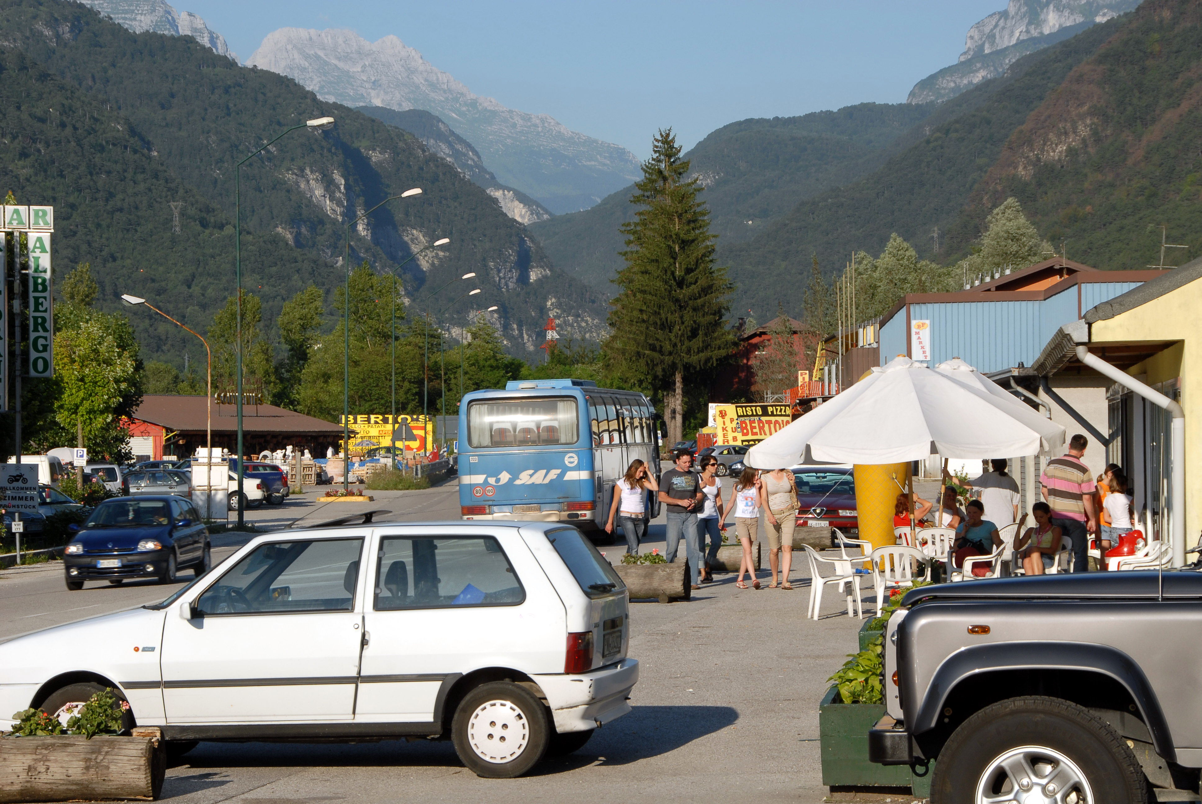 Resiutta in the Fella valley in the province of Udine, Friuli-Venezia Giulia, Italy